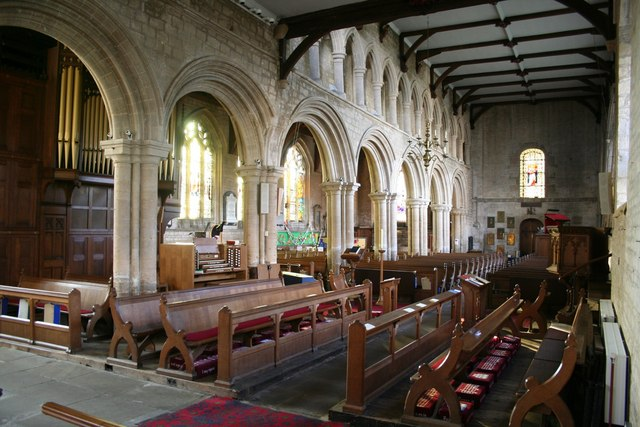 Priory church nave Glorious 7-bay late 12th century Norman arcade and 13-bay 13th century Early English triforium in the Priory church of Deeping St.James nave